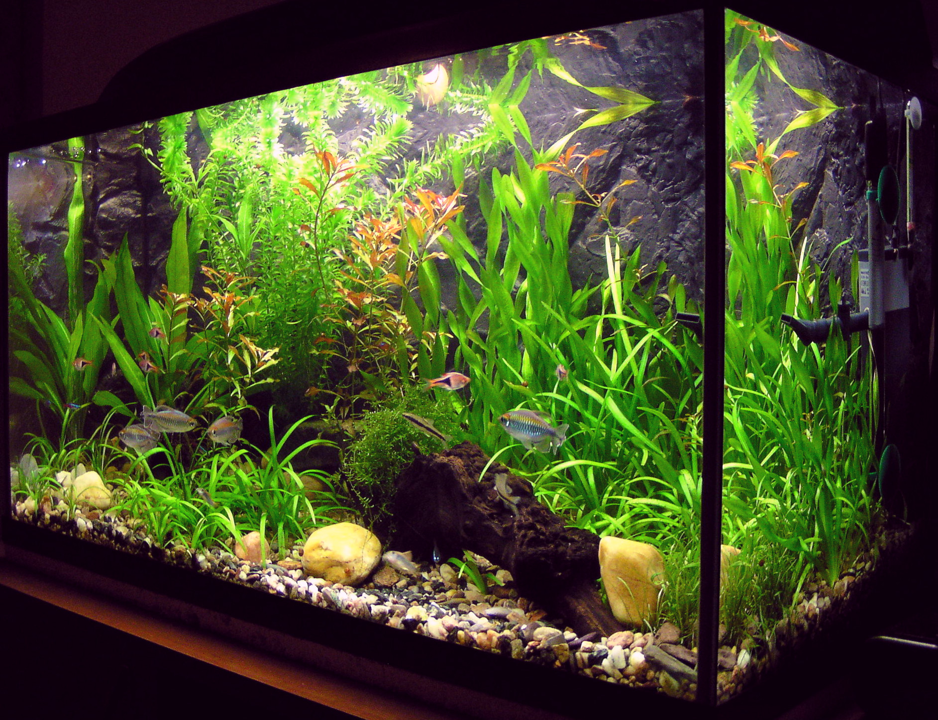 A small amateur aquarium – tank for 100 liters.